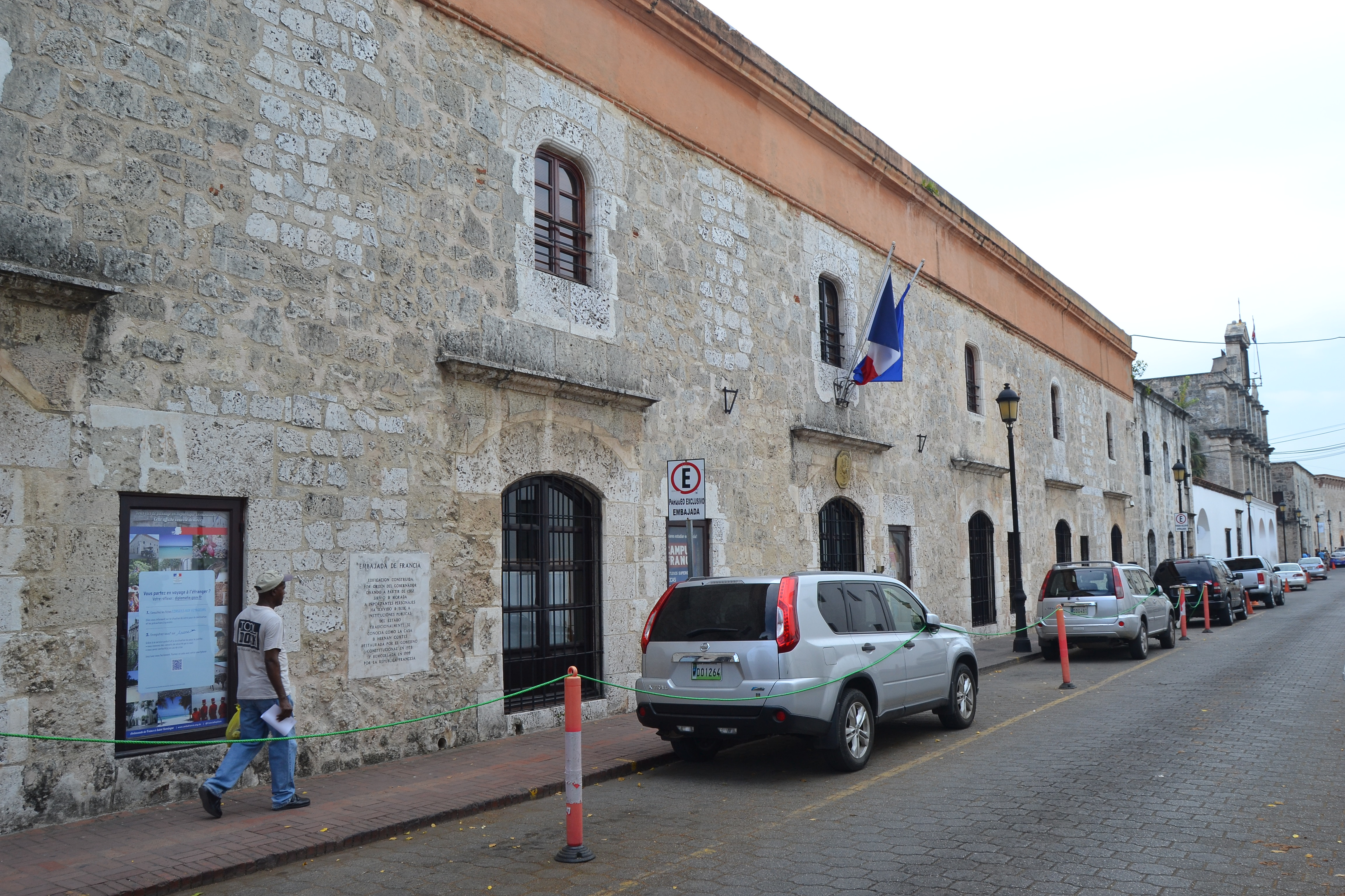 Ciudad Colonial, french ambassy, house of Hernán Cortés, Dominican Republic.